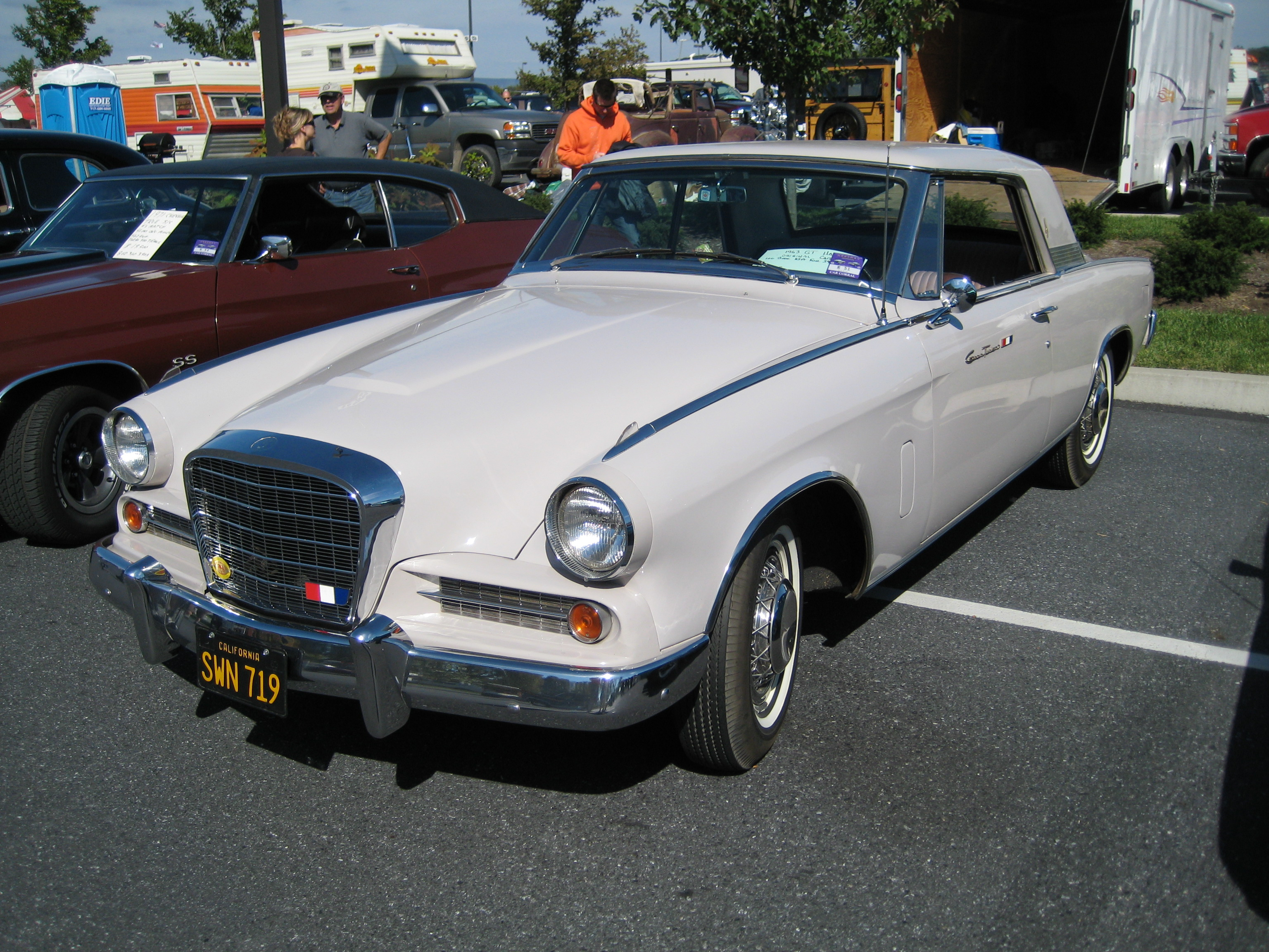 1963 Studebaker Grand Turismo Hawk at what is known as the biggest old car meet in the world, AACA Fall Meet, Hershey Pennsylvania, October 2009.